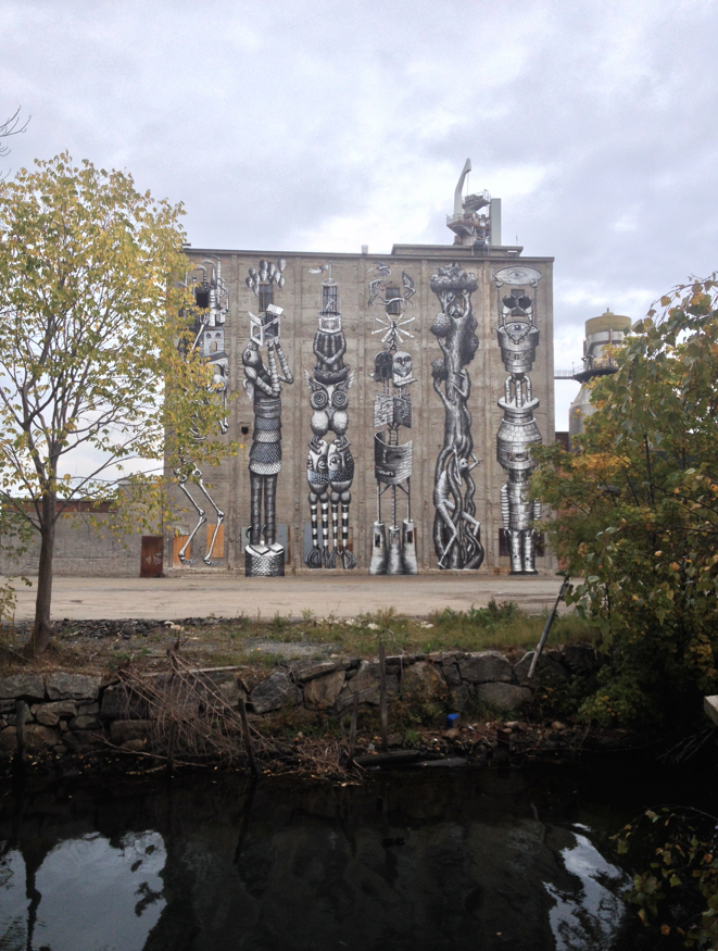 750 m2 mural painting by artist Phlegm (pseudonym) at closed down pulp and paper mill Peterson in Moss, Norway. Finished in 9 days in July 2014.